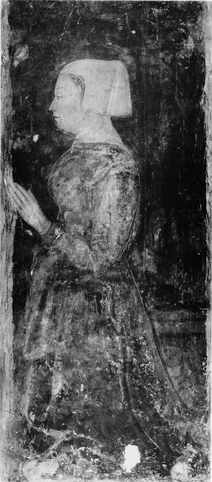 Fresco of Bianca Maria Visconti, Duchess of Milan, from the Church of Saint Agostino (Chiesa di Sant'Agostino) in Cremona, Italy. It is generally attributed to Bonifacio Bembo, who is also credited with having painted the oldest surviving, nearly complete Tarot deck.